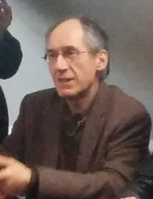 Gérard Biard, at the press conference of Charlie Hebdo, on 13 January 2015.